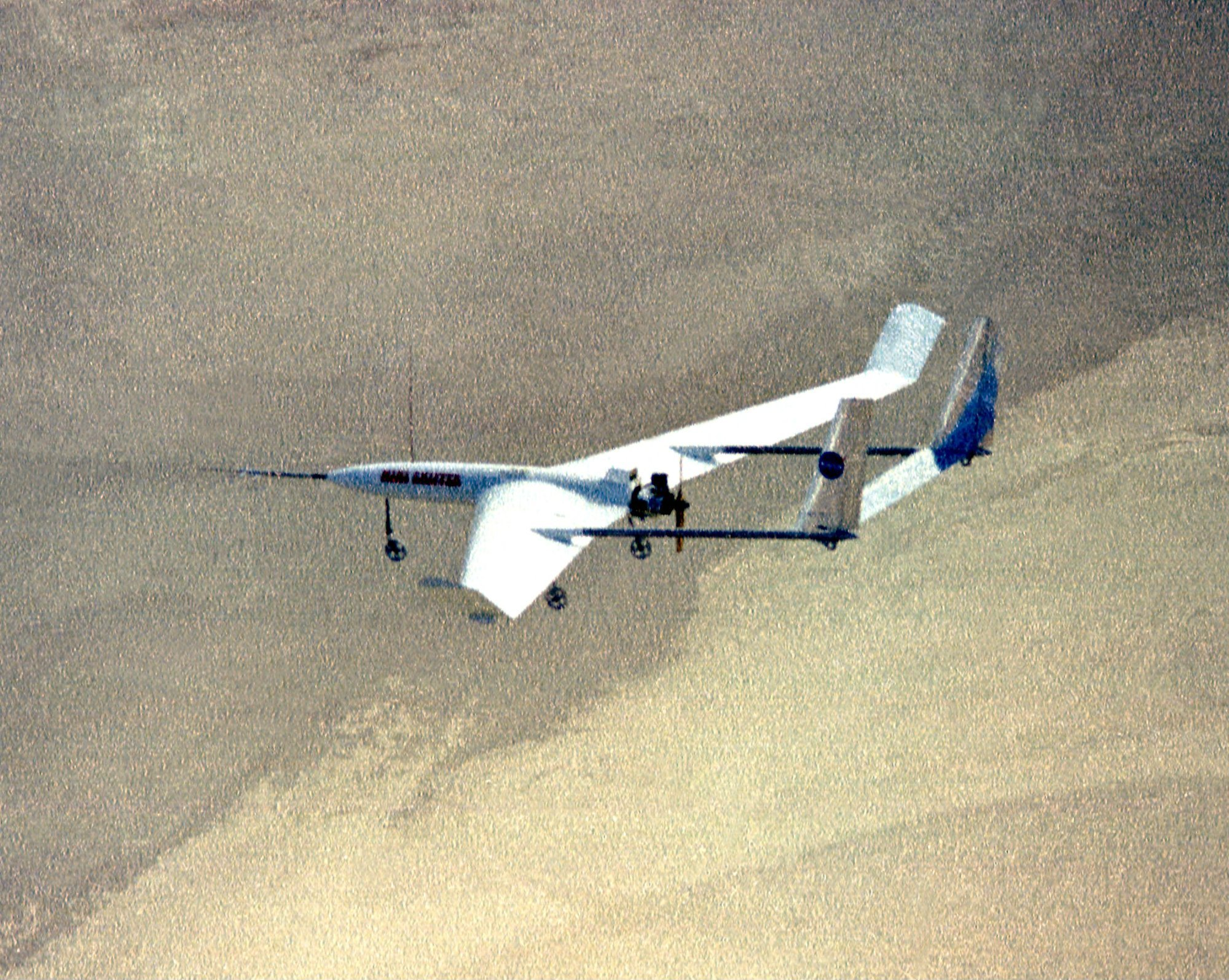 This photograph shows the second Mini-Sniffer undergoing flight testing over Rogers Dry Lake in Edwards, California. This version of the Mini-Sniffer lacked the canard of the original version and had wing tips and tail booms added. The Mini-Sniffer was a remotely controlled, propeller-driven vehicle developed at the NASA Flight Research Center (which became the Dryden Flight Research Center, Edwards, California, in 1976) as a potential platform to sample the upper atmosphere for pollution. The vehicle, flown from 1975 to 1977, was one of the earliest attempts by NASA to develop an aircraft that could sense turbulence and measure natural and human-produced atmospheric pollutants at altitudes above 80,000 feet with a variable-load propeller that was never flight-tested. Three Mini-Sniffer vehicles were built. The number 1 Mini-Sniffer vehicle had swept wings with a span of 18 feet and canards on the nose. It flew 12 flights with the gas-powered engine at low altitudes of around 2,500 feet. The number 1 vehicle was then modified into version number 2 by removing the canards and wing rudders and adding wing tips and tail booms. Twenty flights were made with this version, up to altitudes of 20,000 feet. The number 3 vehicle had a longer fuselage, was lighter in weight, and was powered by the non-air-breathing hydrazine engine designed by NASA's Johnson Space Center in Houston, Texas. This version was designed to fly a 25-pound payload to an altitude of 70,000 feet for one hour or to climb to 90,000 feet and glide back. The number 3 Mini-Sniffer made one flight to 20,000 feet and was not flown again because of a hydrazine leak problem. All three versions used a pusher propeller to free the nose area for an atmospheric-sampling payload. At various times the Mini-Sniffer has been considered for exploration in the carbon dioxide atmosphere of the planet Mars, where the gravity (38 percent of that on Earth) would reduce the horsepower needed for flight.